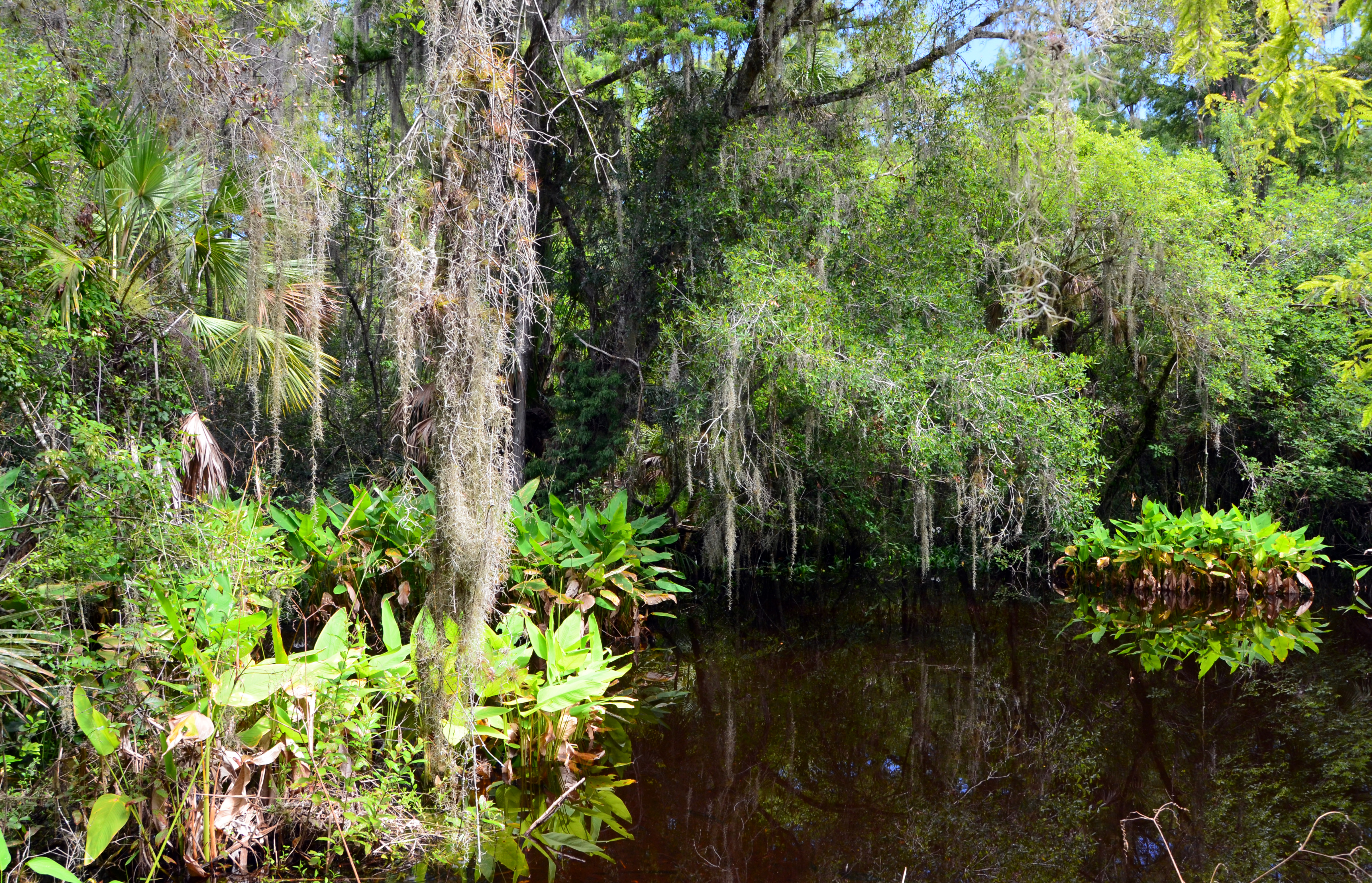 The Fakahatchee Strand (Florida, USA), the largest bald cypress/royal palm swamp in the world. The plant growing upon the trees is called spanish-moss (Tillandsia usneoides). Picture taken from the Big Cypress Bend Boardwalk, extending 2300 feet into the forest.